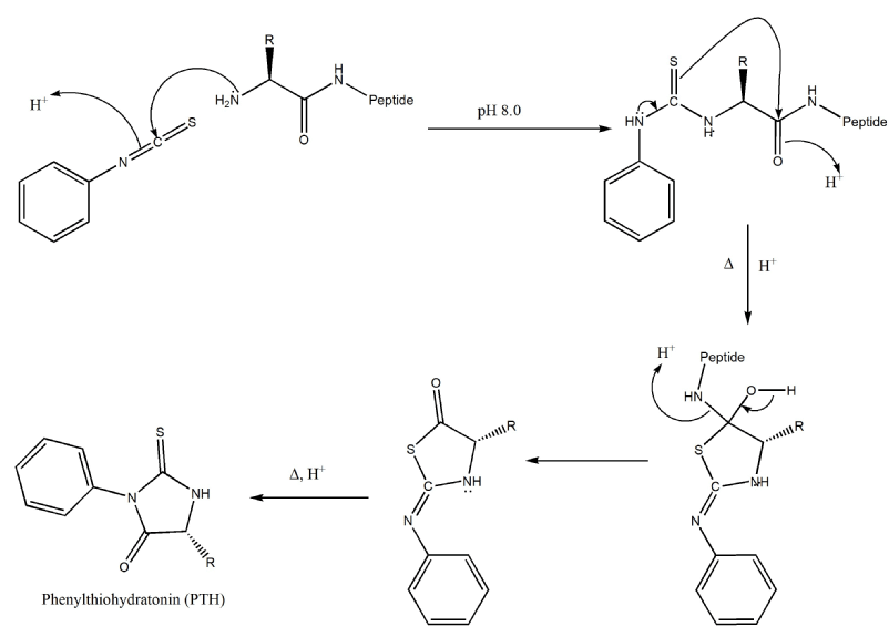 Mechanism for the Edman Degradation. Drawn in Chemdraw 2005.